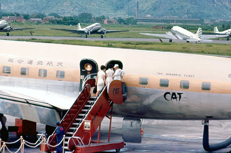 Photo of Civil Air Transport Airliner at Taipei Songshan Airport.